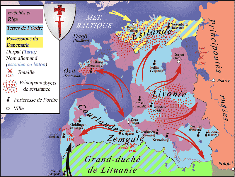 Map of the Livonian Crusade (1202-1260